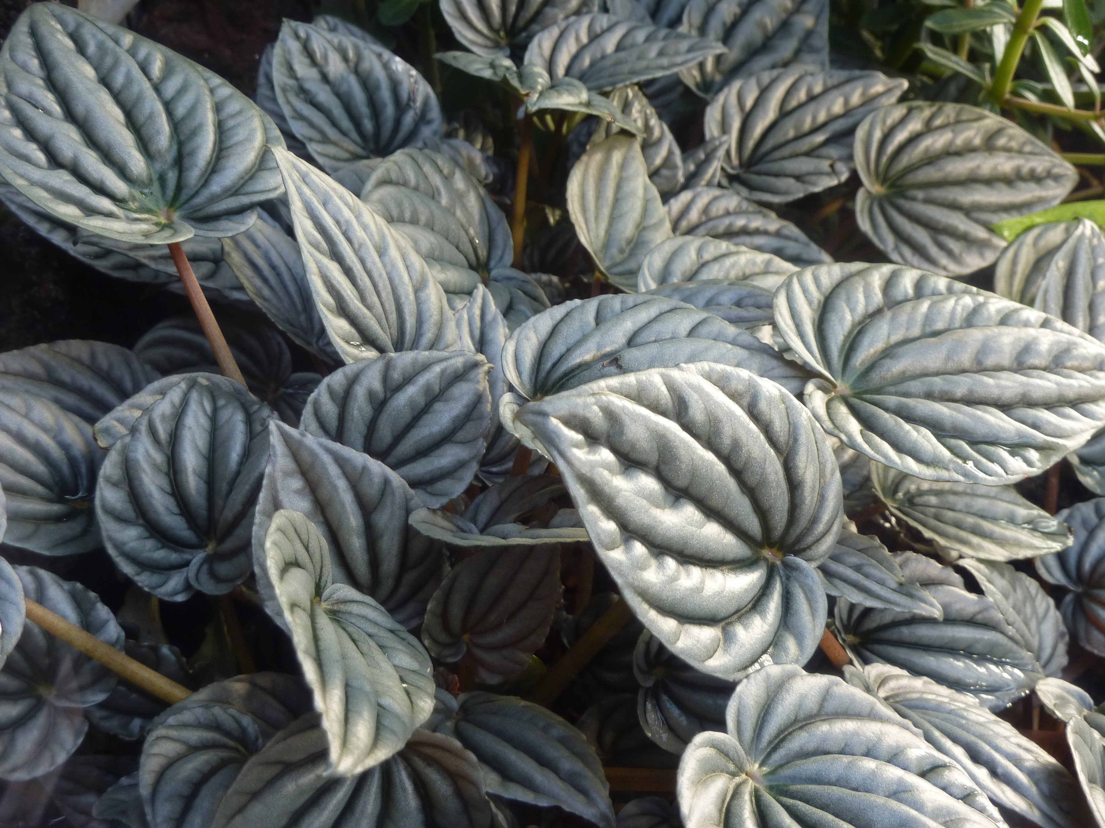 Peperomia griseoargentea in the Botanical Garden, Berlin